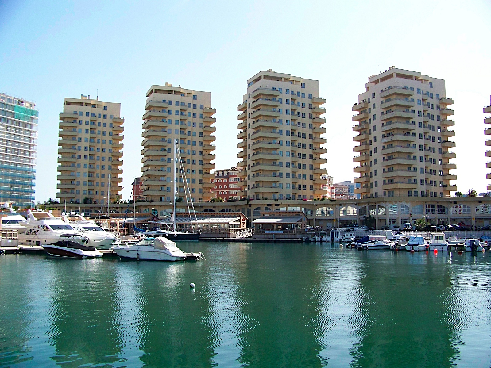 View of Watergardens apartments accros Ocean VillageGibraltar.